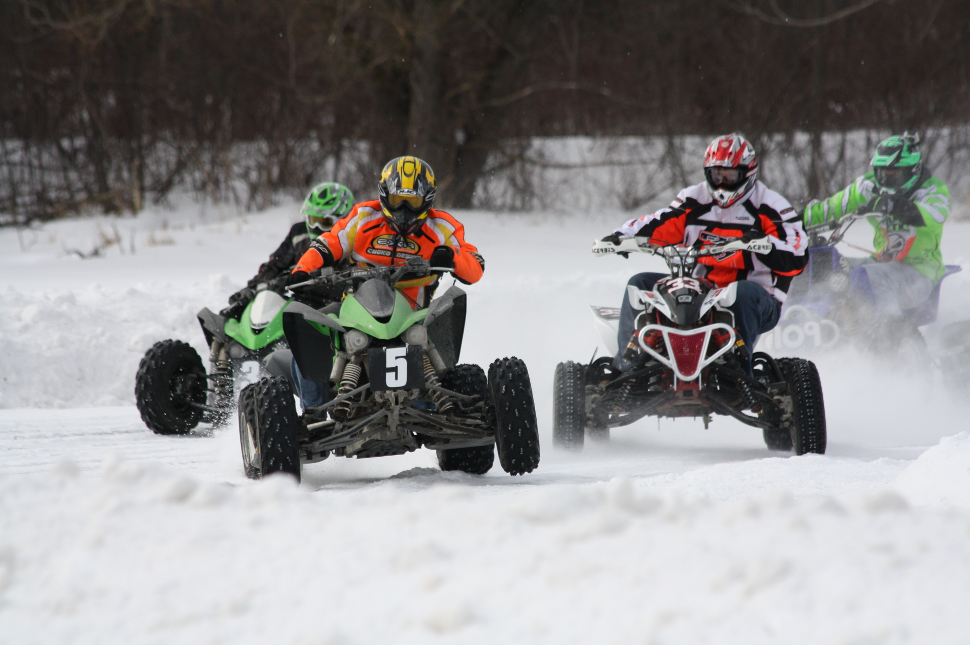 All Terrain Vehicles (ATV) (also known as Quads) racing with studded tires on ice at the Tilleda Thunder program at Tilleda, Wisconsin on the Embarrass River.